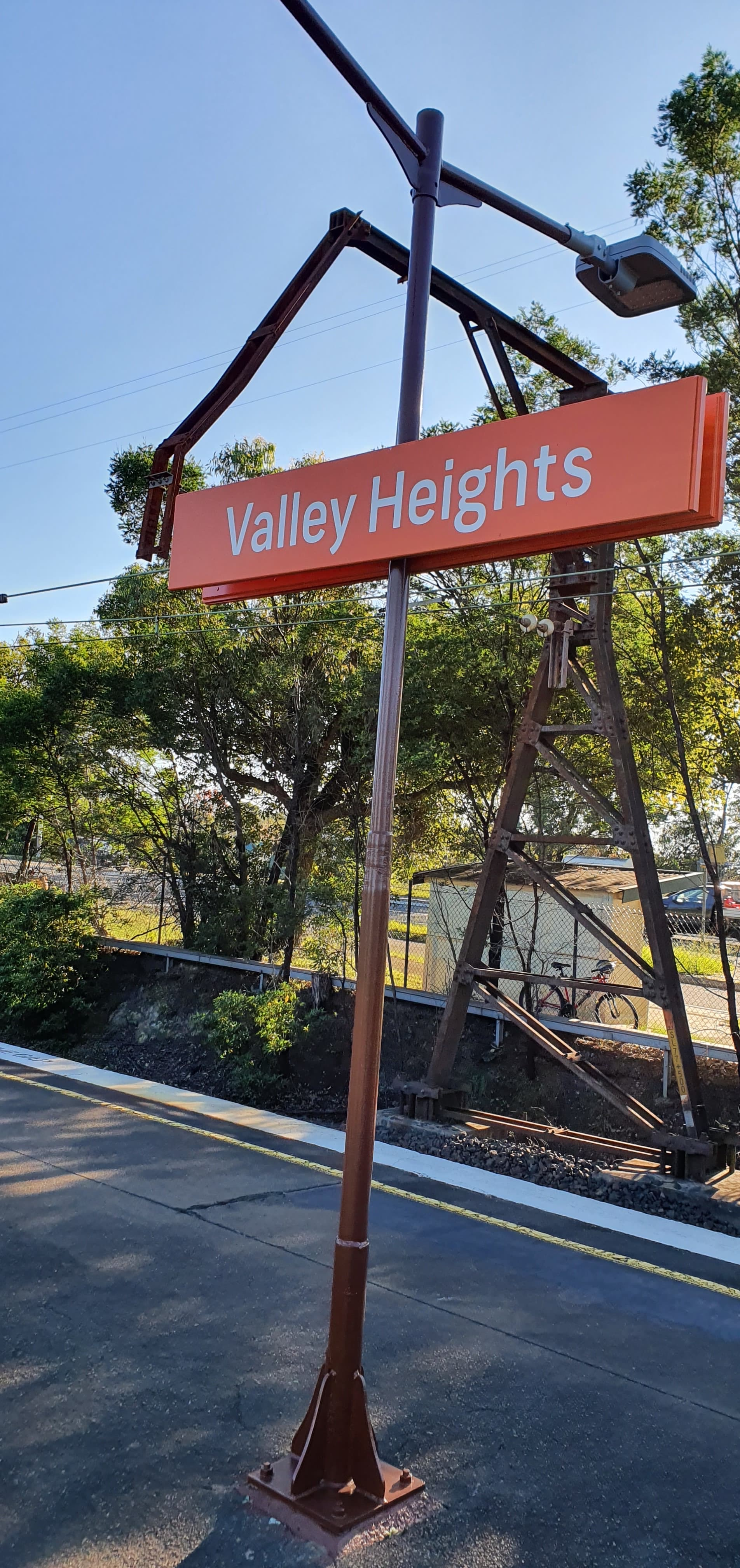 This picture was taken on the 11th of May at the Valley Heights train station